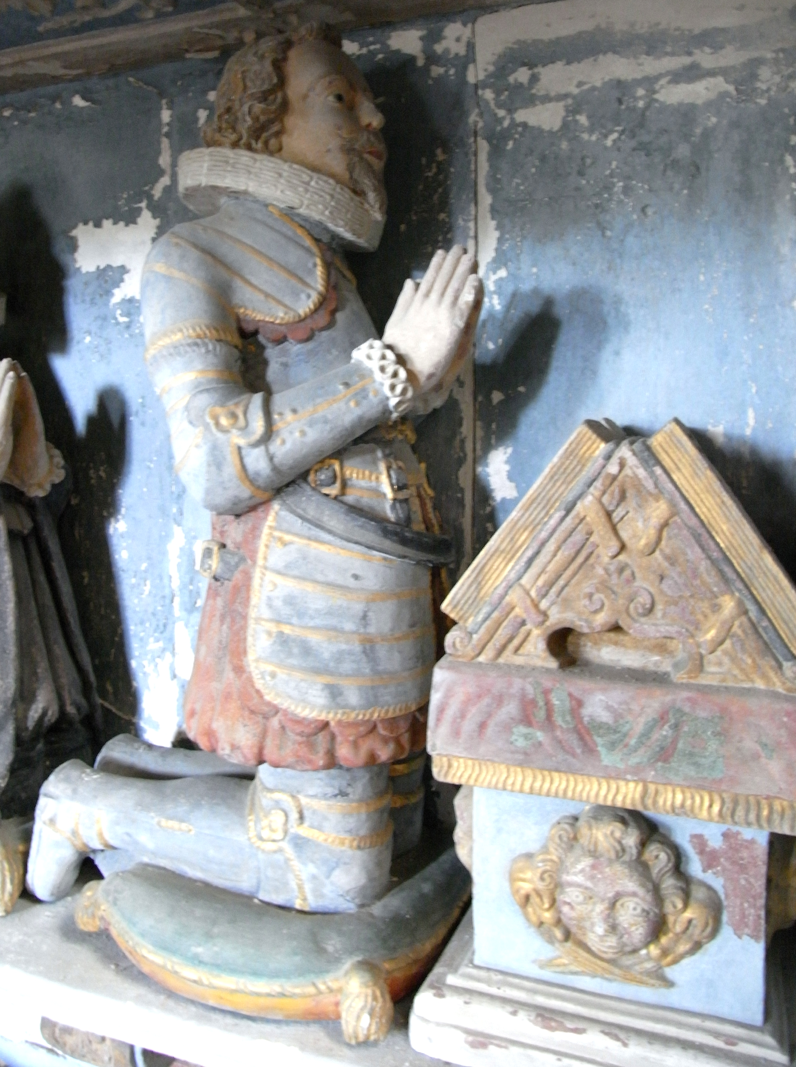 Effigy of Col. Sir Francis I Fulford (c. 1583 - 1664) of Great Fulford, Dunsford, Devon, a Royalist commander during the Civil War, on the monument to his father Sir Thomas III Fulford (1553-1610). Fulford Chapel of St Mary's Church, Dunsford